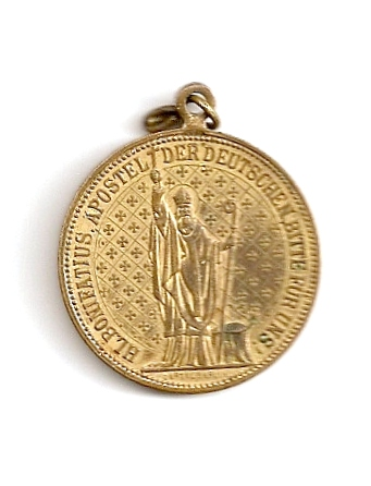 1905 medal to commemorate the celebrations in honor of Saint Boniface